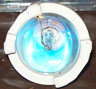 A 100W Osram Mercury-Xenon arc lamp in reflector. This lamp is used in UV adhesive curing systems.